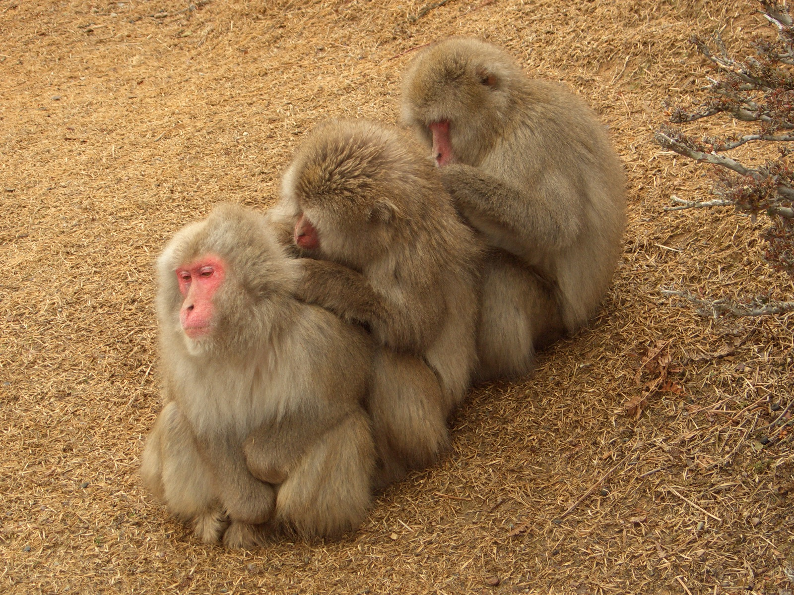 Macaca fuscata, Social grooming. Arashiyama Monkey park Iwatayama. co-65-71-87（co87） co-75-71-90（co90） co-65-71-87-93（co93）